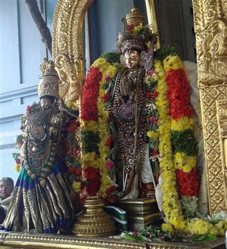 Thirumaigai Aazvar